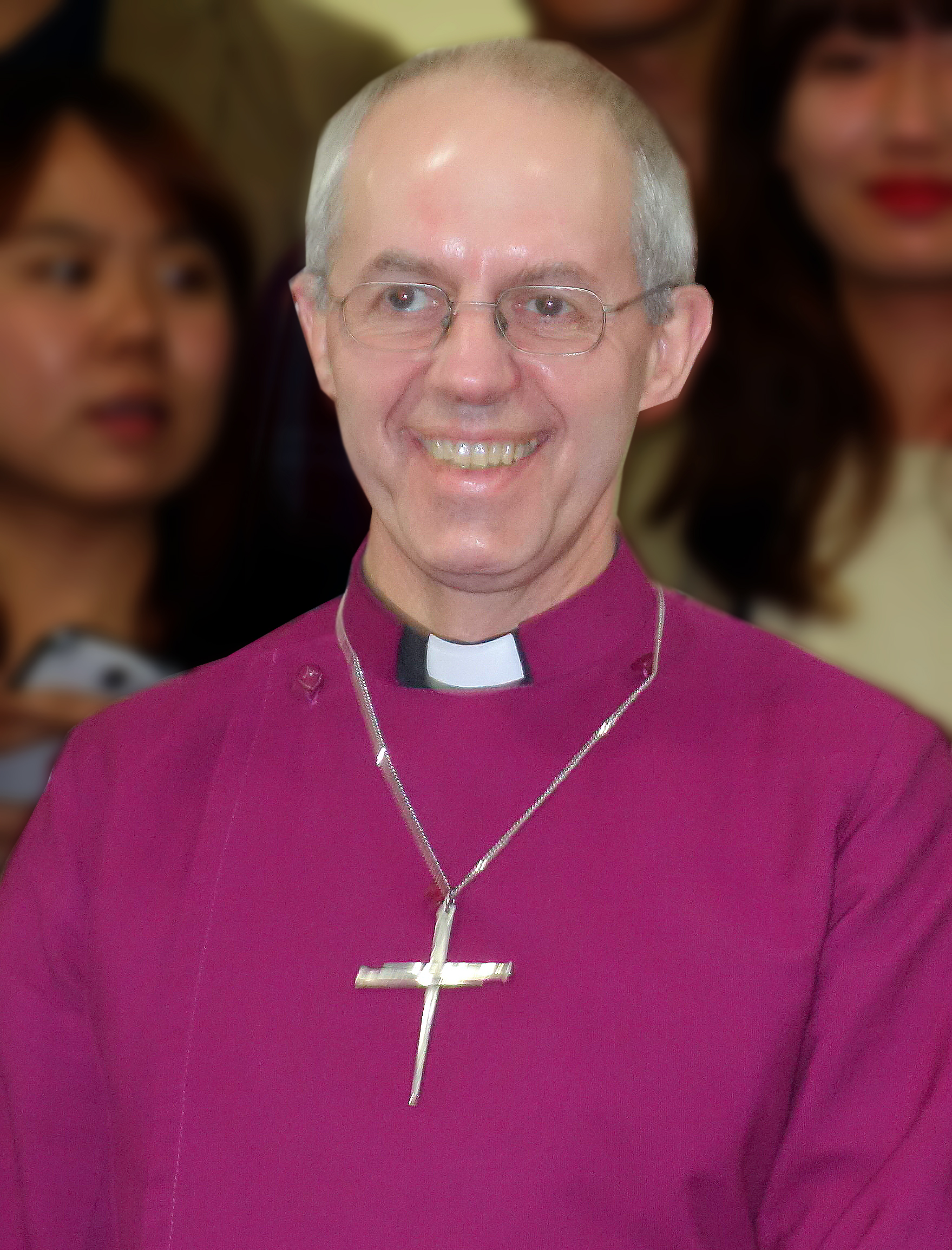 Justin Welby, the Archbishop of Canterbury, on the event of talk with christian youth, in the Seoul Anglican Cathedral, November 3, 2013, 3pm